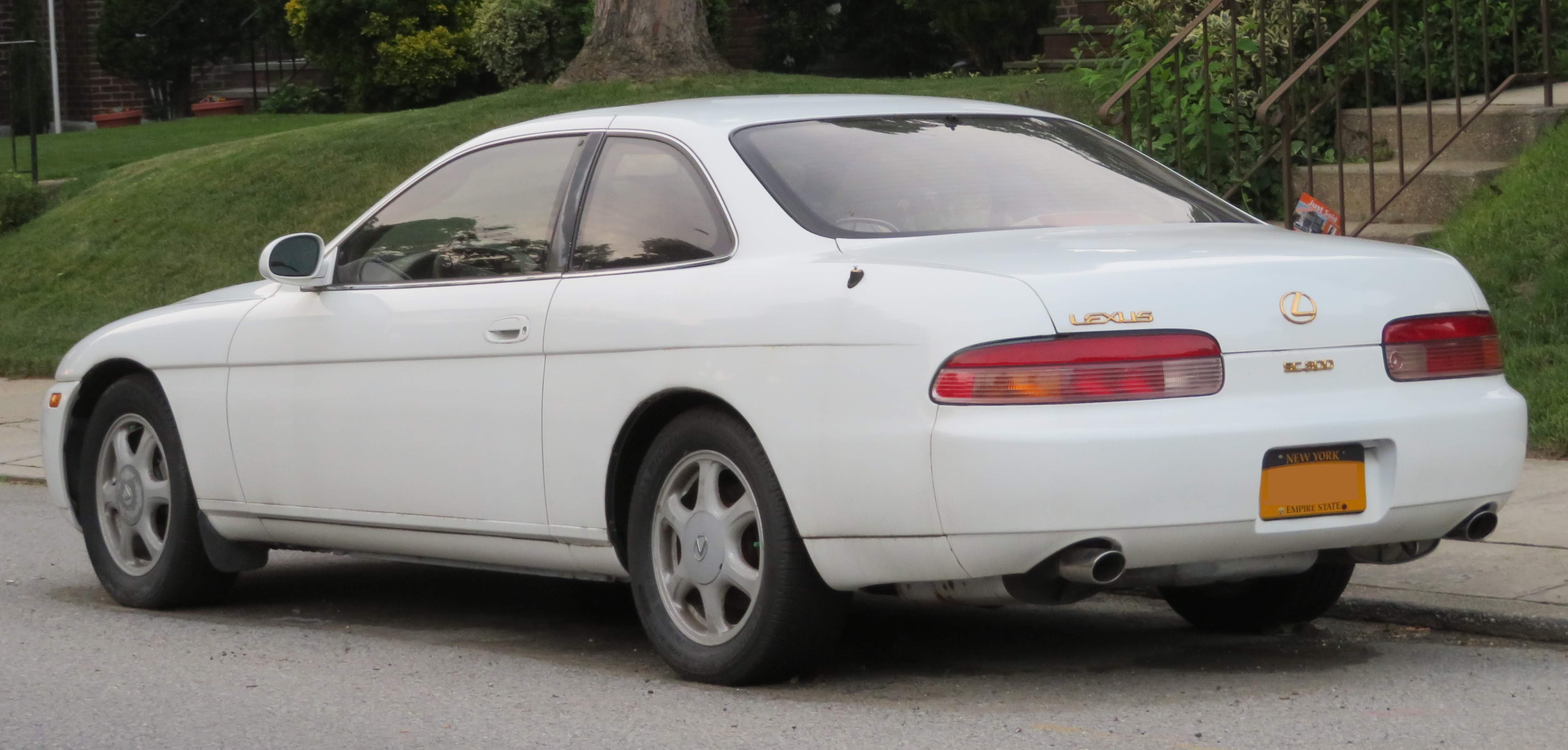 Photographed in Queens, New York